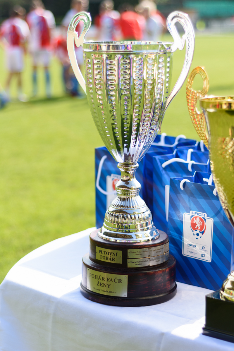 Czech women's cup trophy